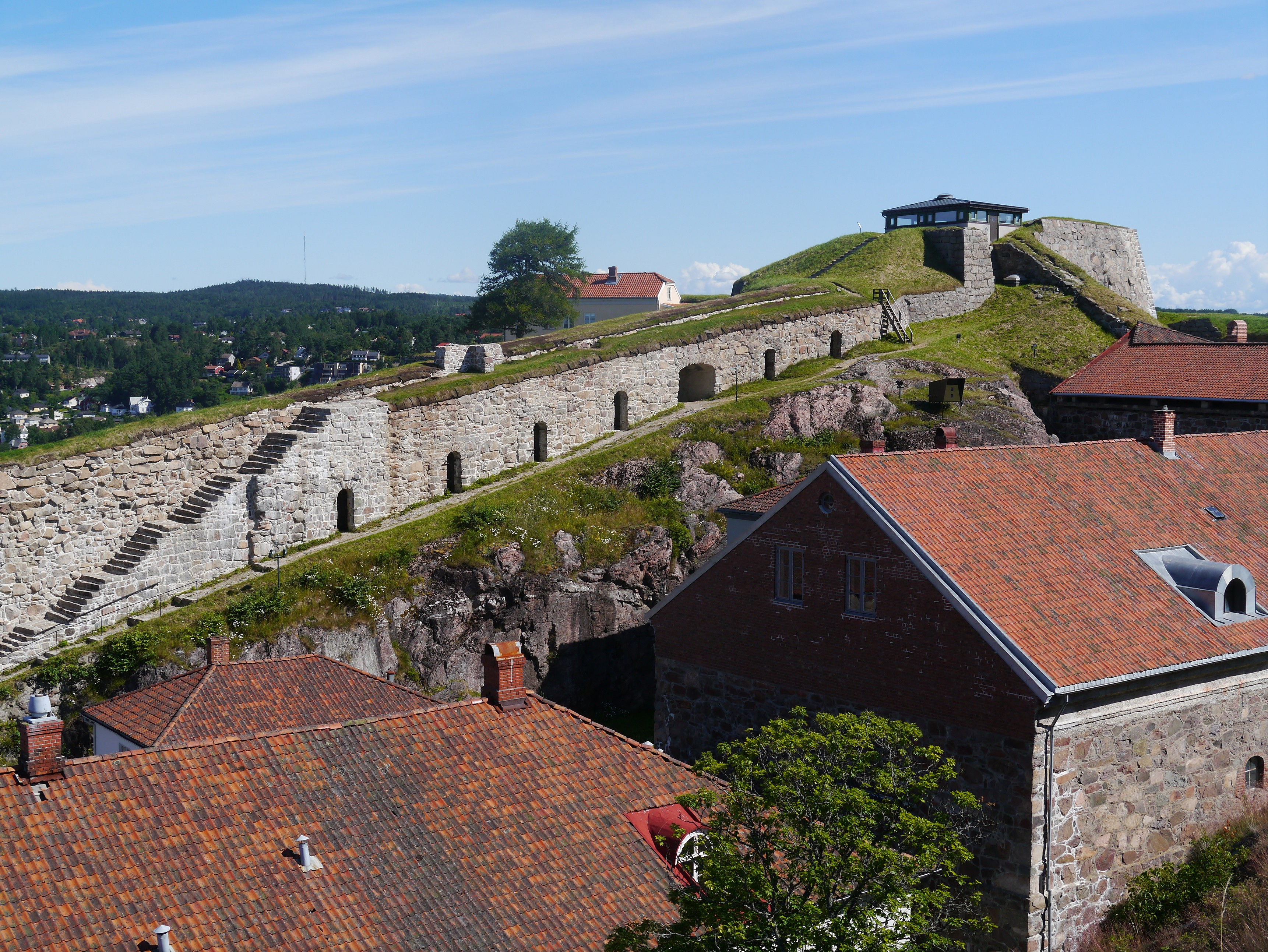 Fredriksten Fortress, Halden, Östfold County, Southern Norway